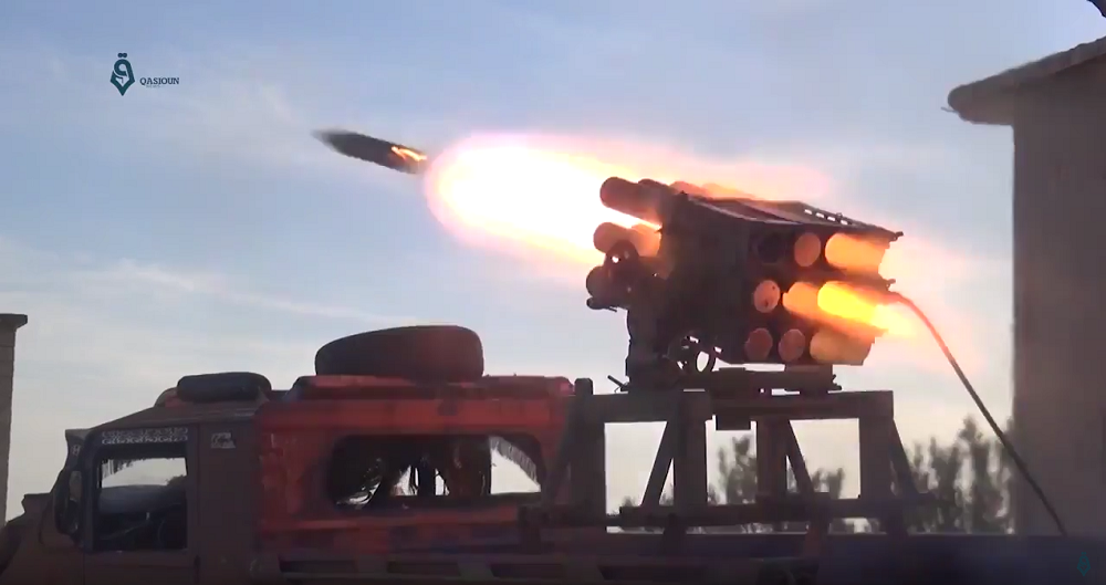 Syrian opposition forces bombarded the Syrian government positions with heavy artillery and rocket launchers during a battle northern Hama.